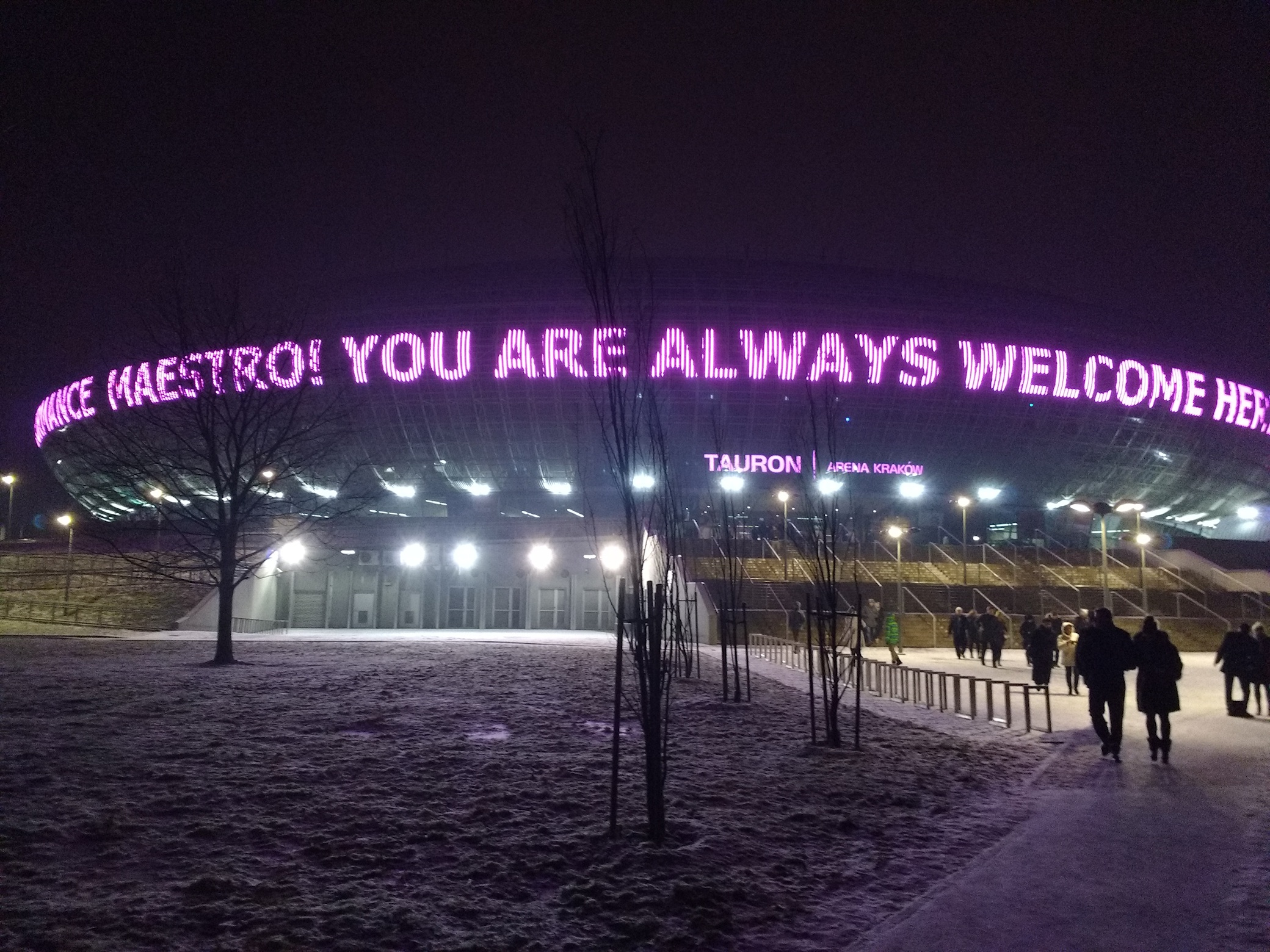 Light display after Ennio Morricone concert at Tauron Arena in Kraków, Poland.